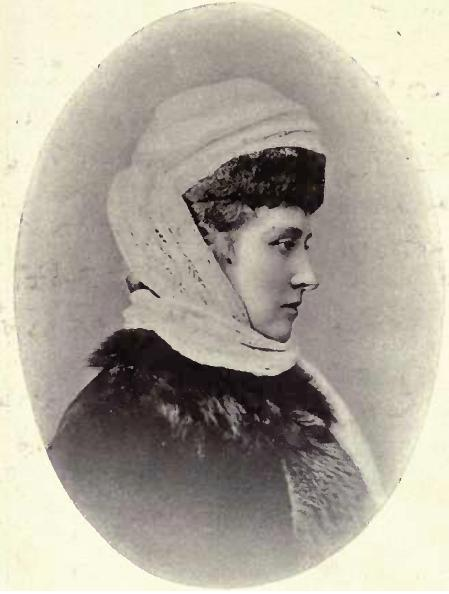 Princess Louise Caroline Alberta (Princess Louise, Duchess of Argyll) by William James Topley